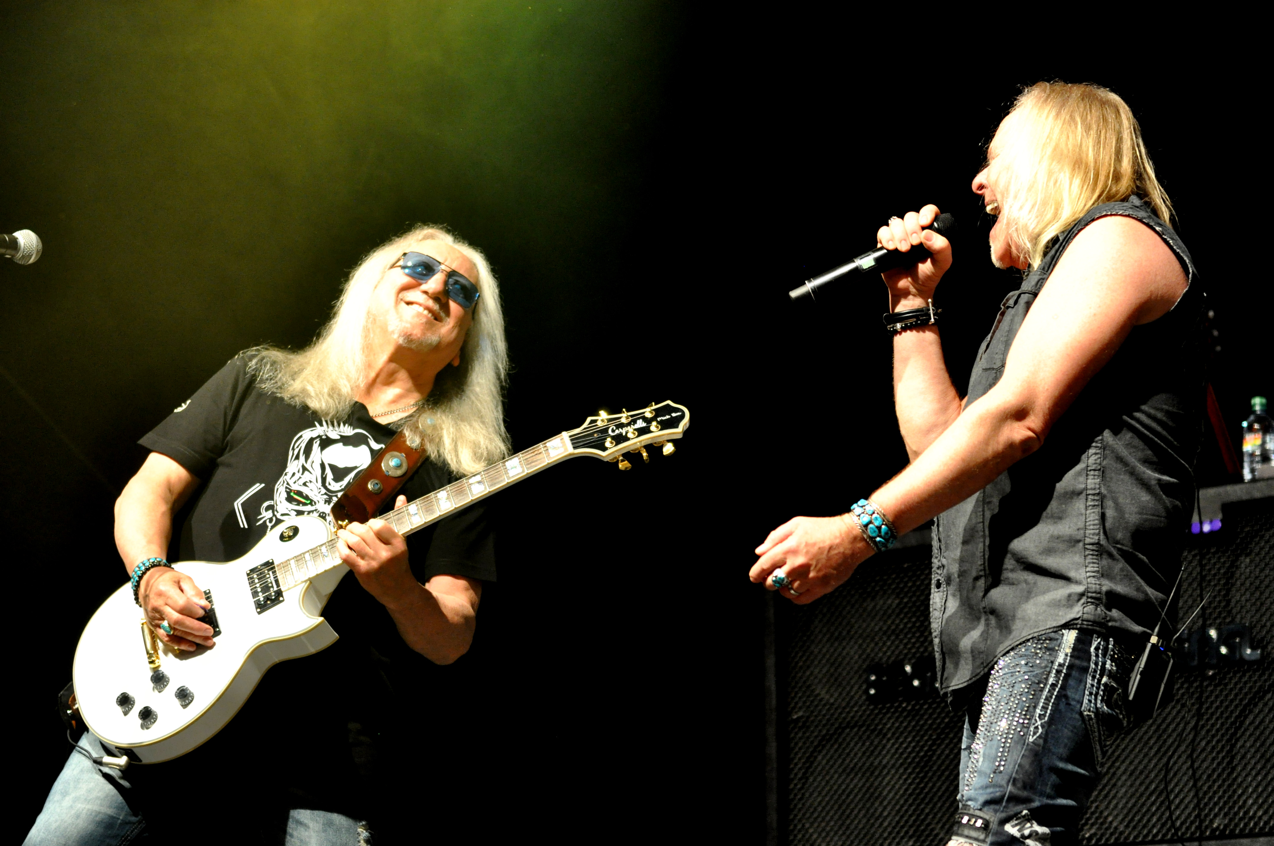 Uriah Heep (GBR) appearance at the 2016 blacksheep festival at Bonfeld castle, Bad Rappenau, Baden-Wuerttemberg, Germany Festivalsommer This photo was created with the support of donations to Wikimedia Deutschland in the context of the CPB project "Festival Summer".